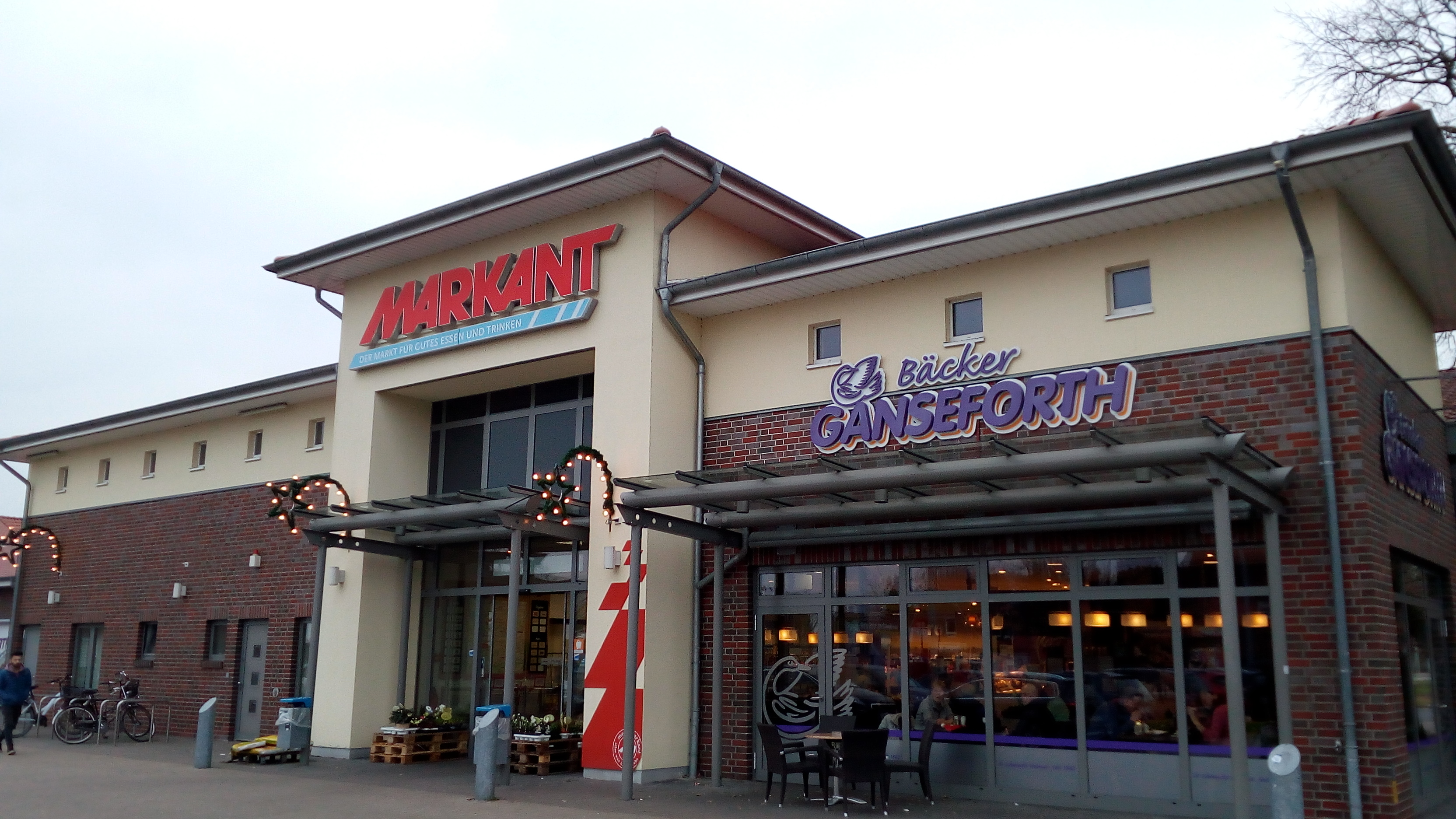 A small local Markant supermarket in the Low-Saxon village of Dörpen.